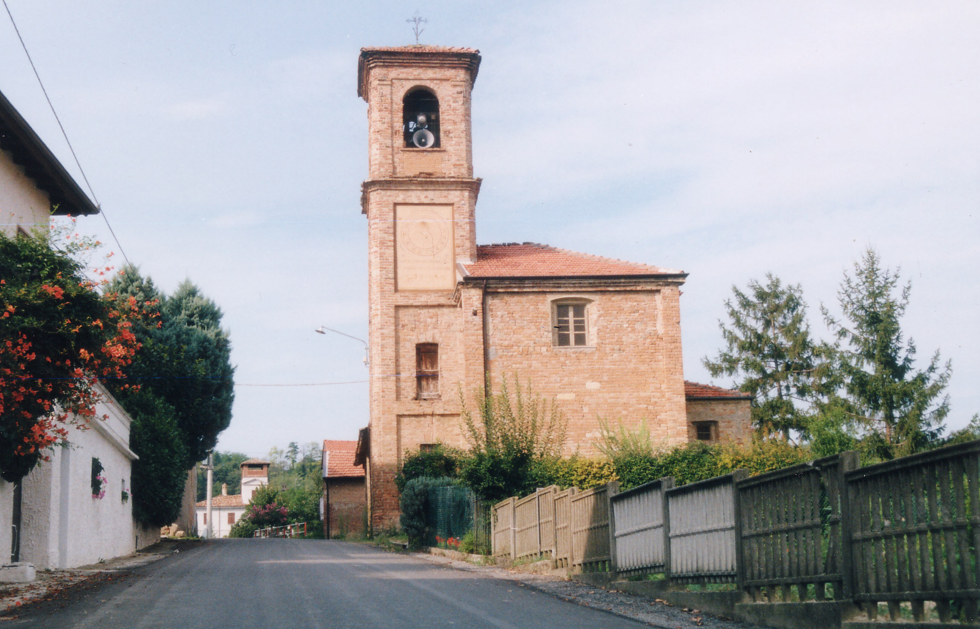 Church of Castelletto Merli